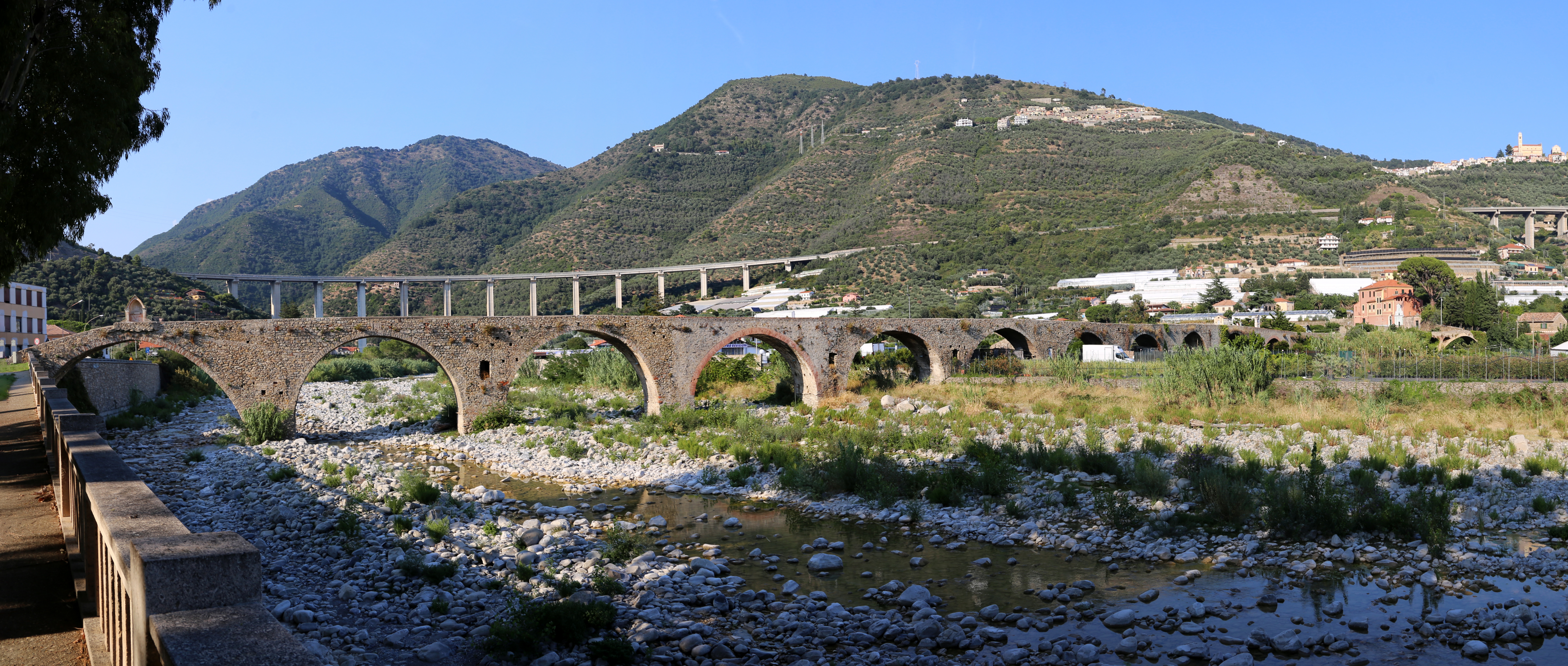 Romanesque bridge (Taggia)